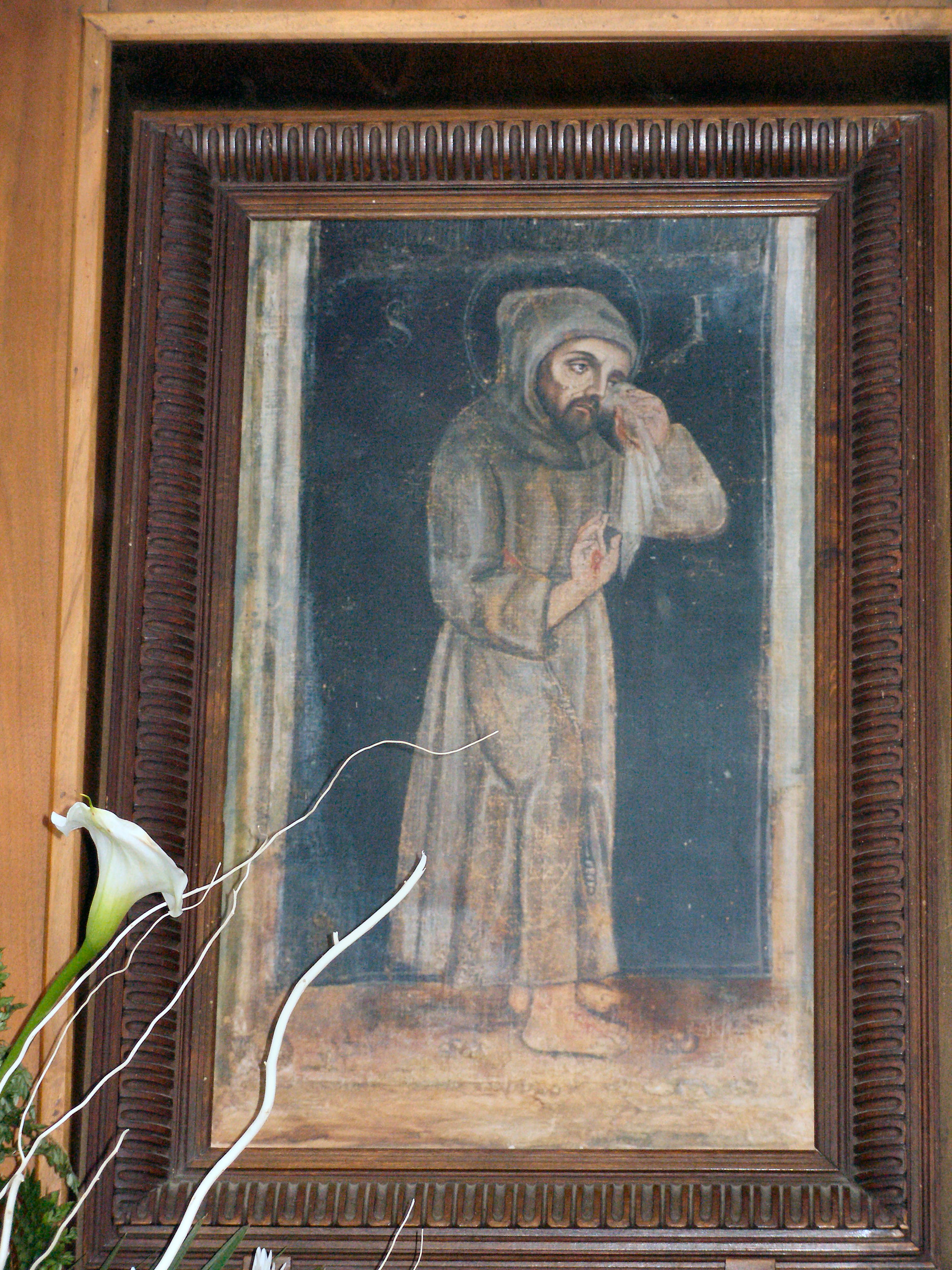 Painting of Saint Francis, Convent of Greccio